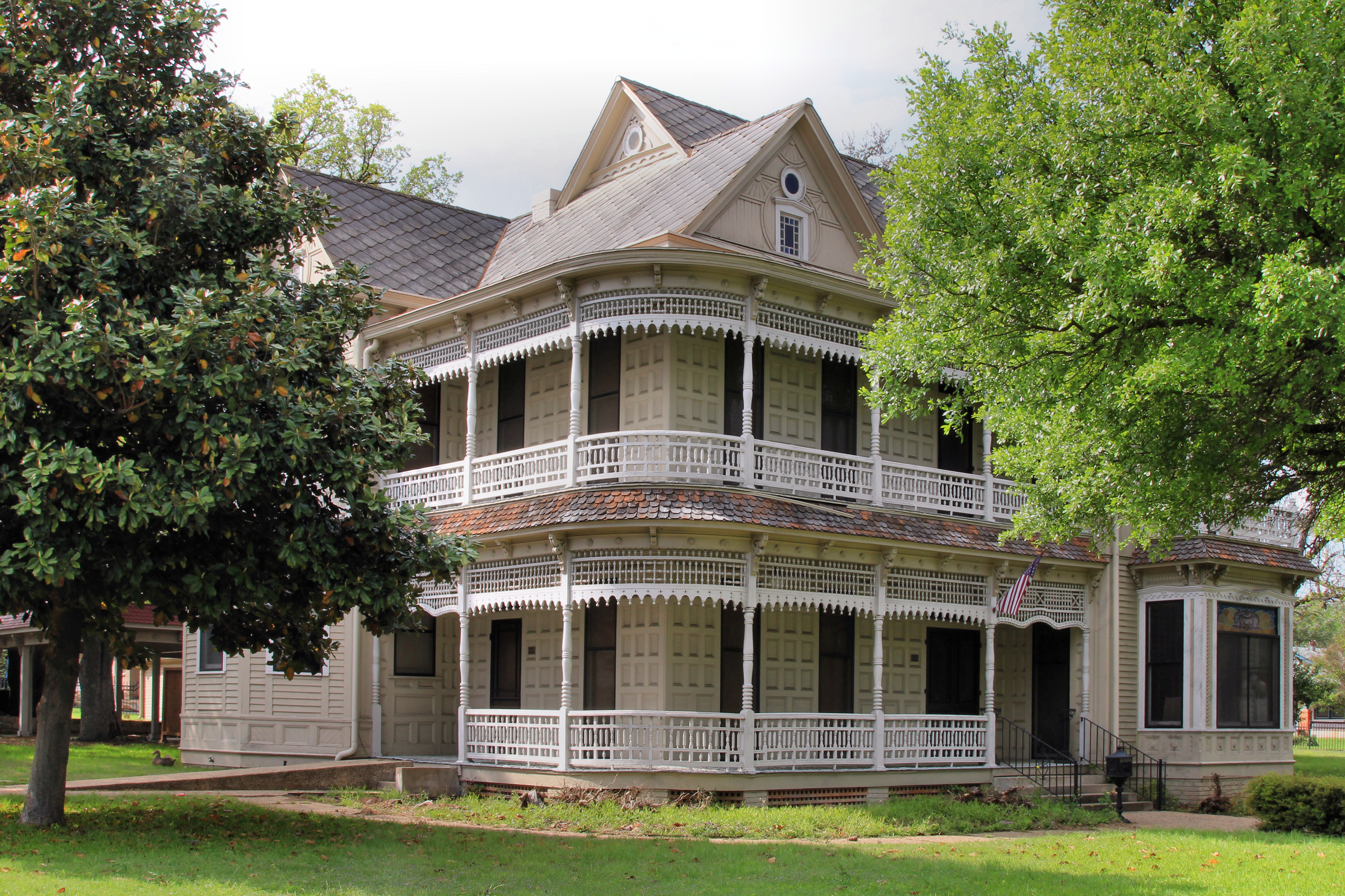 The Dr. Nathan and Lula Cass House located in Cameron, Texas, United States was built in 1895. The house exhibits Queen Anne and Eastlake style elements. It was designated a Recorded Texas Historic Landmark in 1990 and listed on the National Register of Historic Places on February 8, 1991.